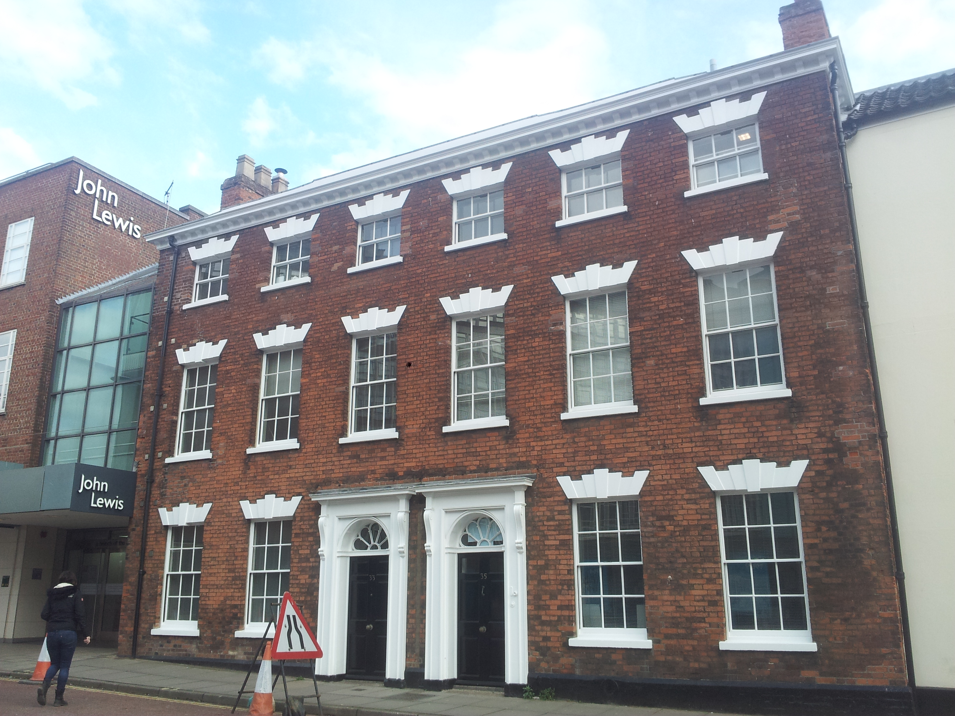 33-35 All Saints Green, Norwich. No. 35 was the temporary home of BBC East in the city in the mid-1950s, before their later move to the nearby St Catherine's Close further down the same road.